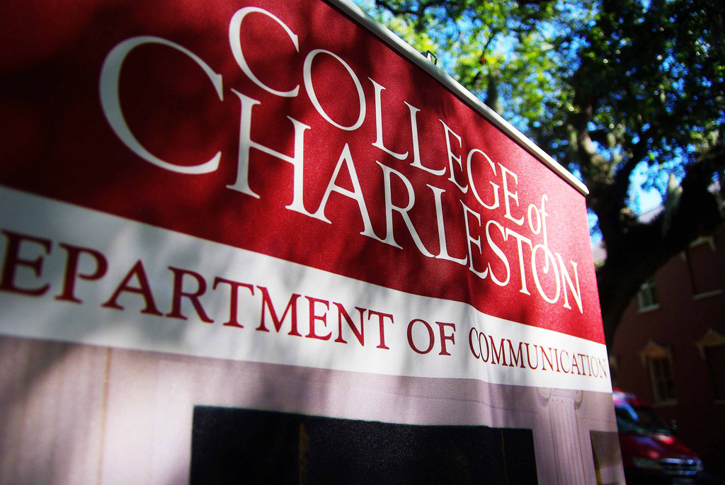 College of Charleston logo